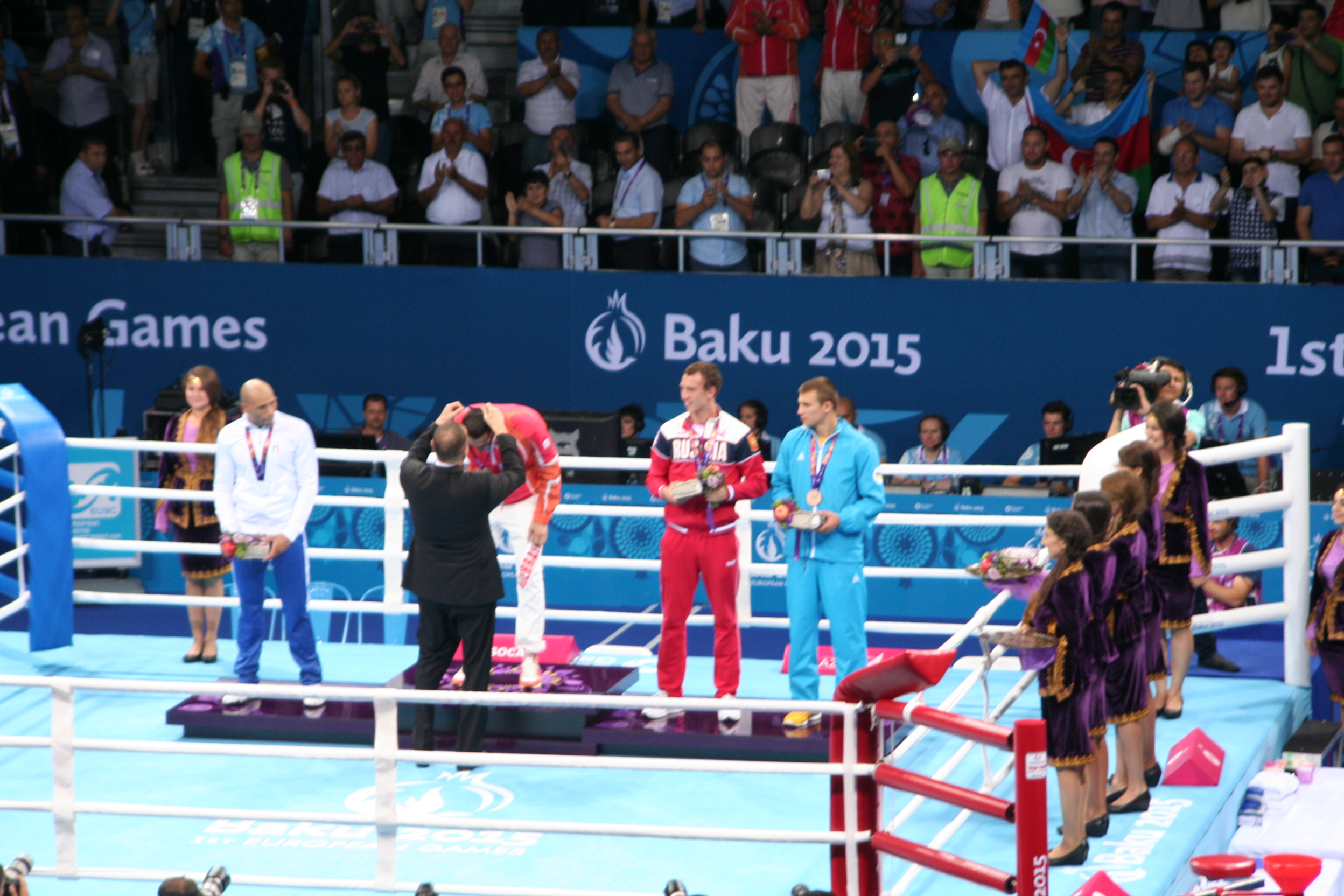 Teymur Mammadov at the awarding ceremony of the 2015 European Games